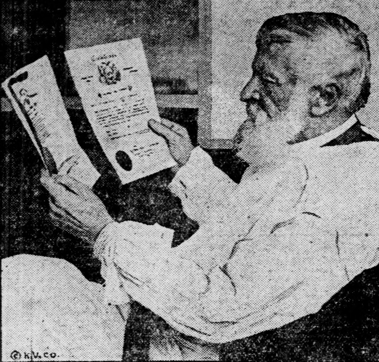 photo of Adolf Lorenz. Original caption: Dr. Adolf Lorenz is examining the delayed licenses formally permitting him to practice in New York state and city. The delay was angrily condemned as "petty" by Healther Copeland of New York. The noted Viennese surgeon is again operating in New York.